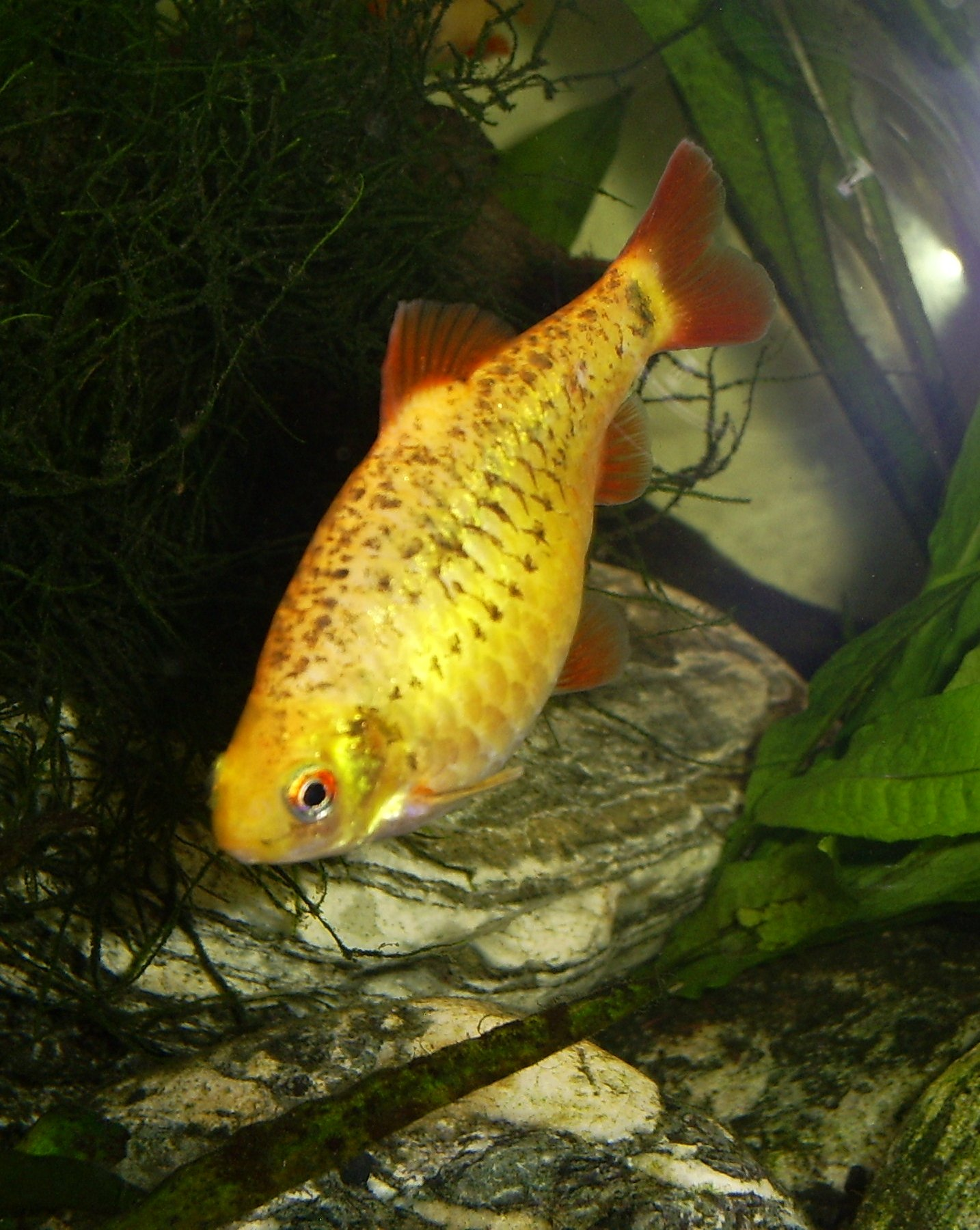 Gold barb